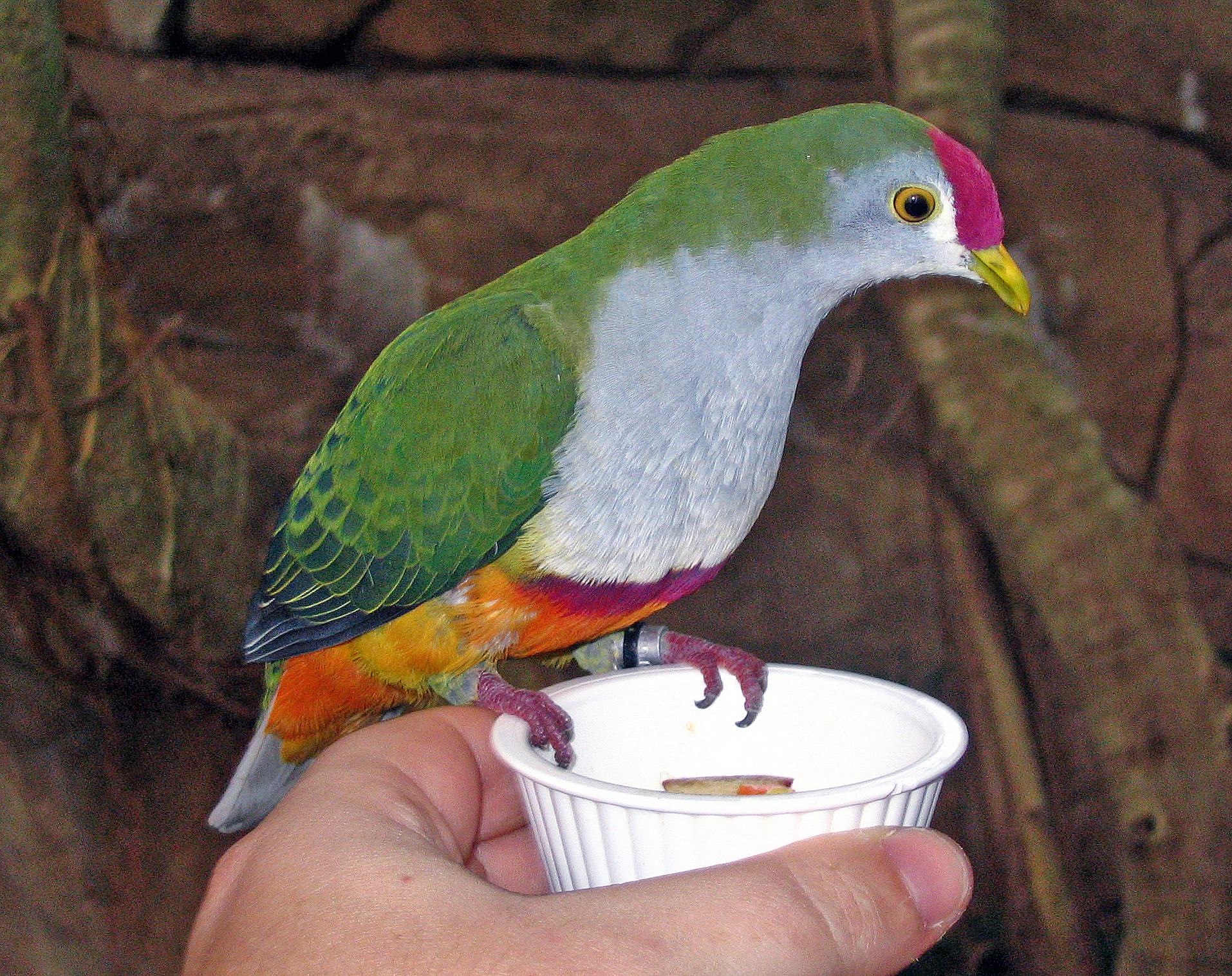 Beautiful Fruit-dove (also known as the Rose-fronted Pigeon or Crimson-capped Fruit-dove). It is been offered a small bowl of diced fruit in the free roaming aviary at Discovery Cove, Florida, USA.